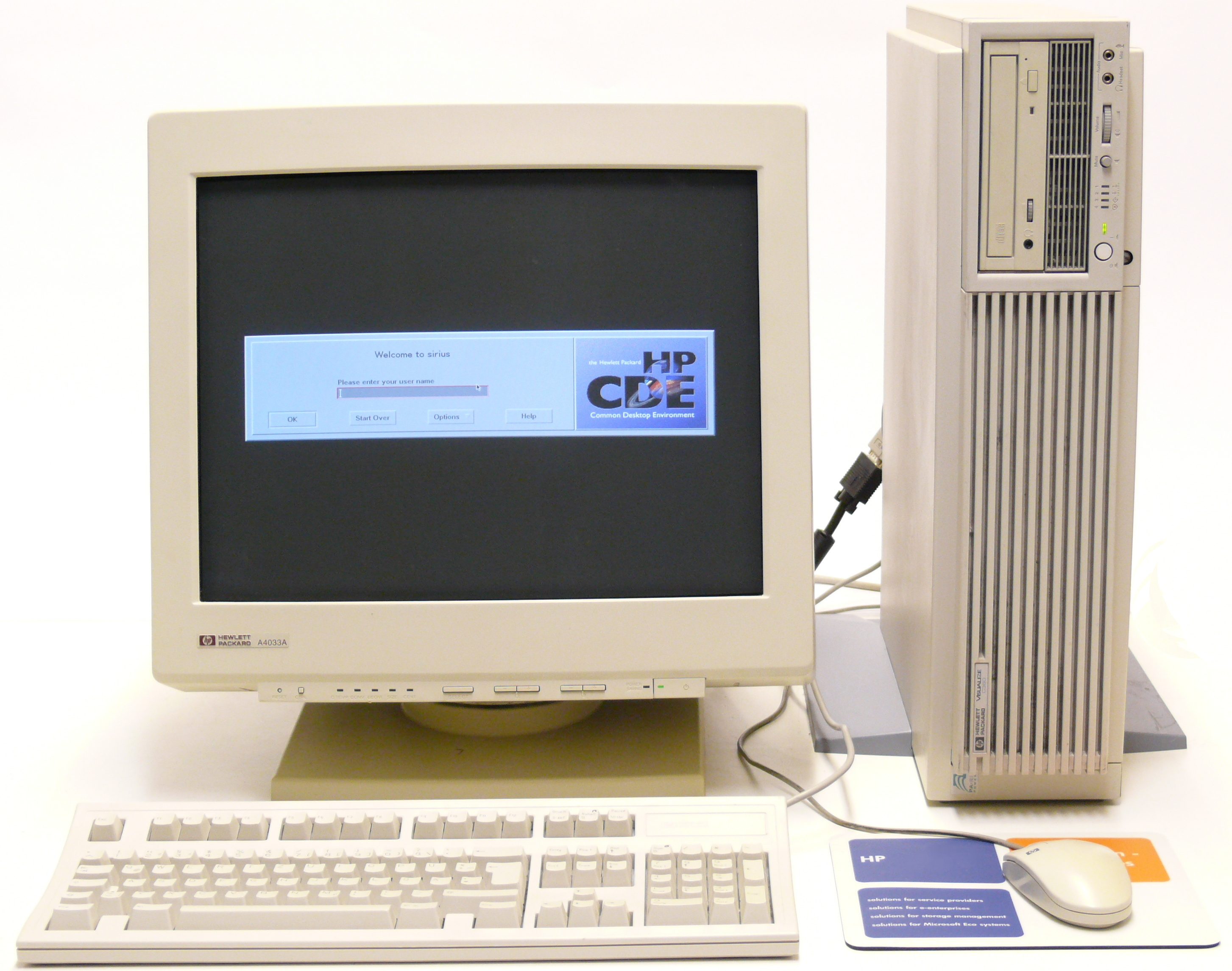 Hewlett-Packard HP9000 Unix Workstation C-Class, Model C360, PA-RISC 8500 CPU - 64 Bit - 367 MHz, max. 3 GByte RAM, SCSI2 Fast Narrow SE, SCSI2 Ultra Wide SE, 100 MBit LAN, 16 Bit Audio, PCI32/33, PCI64/66, PS2 Keyboard/Mouse, HP-UX, CDE, HP A4033A 20inch Color CRT